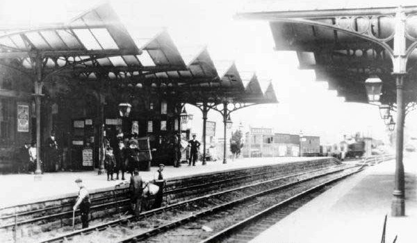 Bakewell railway station was a railway station built by the Manchester, Buxton, Matlock and Midlands Junction Railway to serve the town of Bakewell in Derbyshire, England